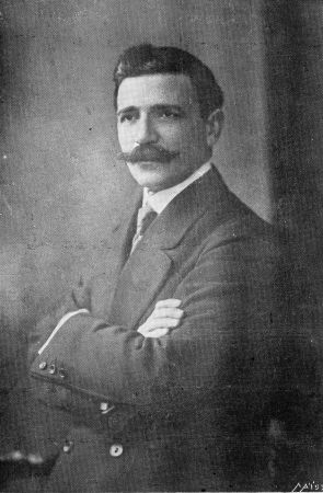 Ioannis Drosopoulos (1870-1939): Greek economist and politician